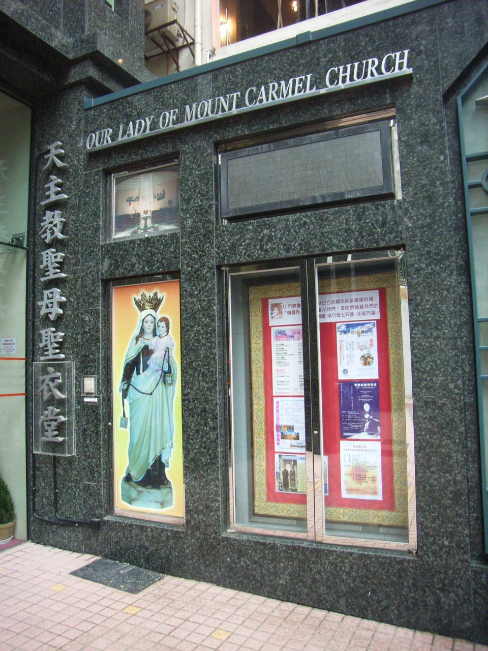 灣仔舊區街道 Wanchai old streets, Hong Kong. (A1 Wong East).